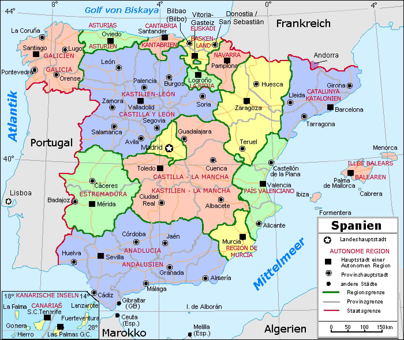 The 50 provinces and 17 autonomous regions of Spain